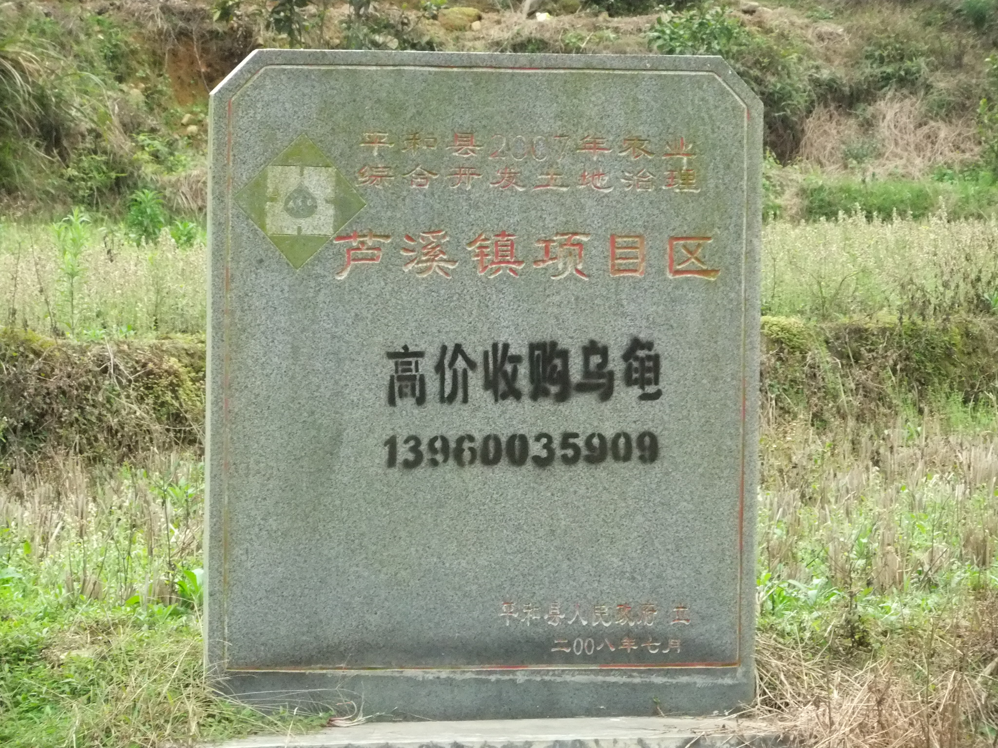 A stone tablet near Fujian Provincial Highway 309 (S309) north of Luxi Town, with the information about a land improvement project. Stencilled on it blank ink, a local businessman offers to "Buy 'black turtles' (乌龟) for a good price". These stencilled ads were quite common in the area.